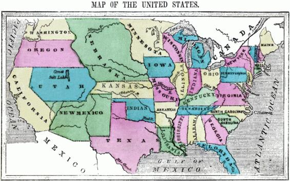 Map of the United States of America of 1856, from a period book. This version of Project Gutenberg image taken from